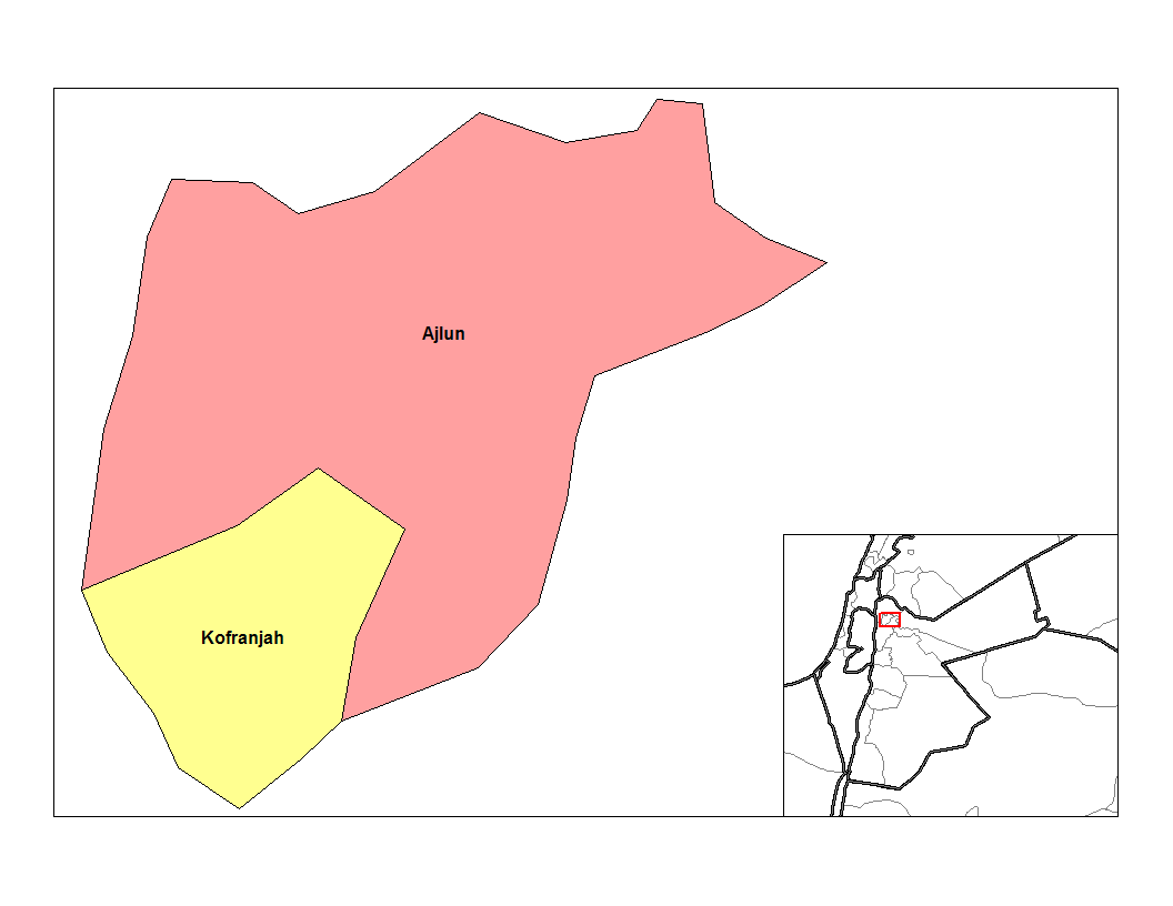 Map of the nahias of Ajlun governorate in Jordan. Created by Rarelibra 21:00, 27 December 2006 (UTC) for public domain use, using MapInfo Professional v8.5 and various mapping resources.